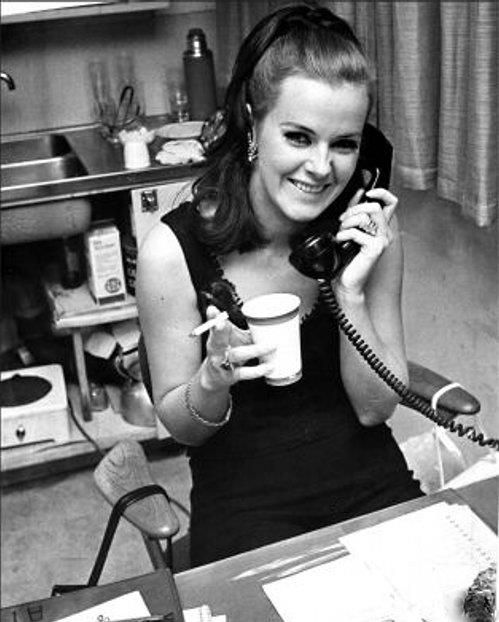 Journalism photo of Anni-Frid Lyngstad on 4 September 1967 issue of Swedish magazine Expressen.This photo is in public domain in Sweden because it was first published on a newspaper in Sweden before 1 January 1969. Note that the new photo is an enhanced version of the previous file uploaded. Also note that the photo is journalism; no professional photo session of the subject using a telephone, has been held.